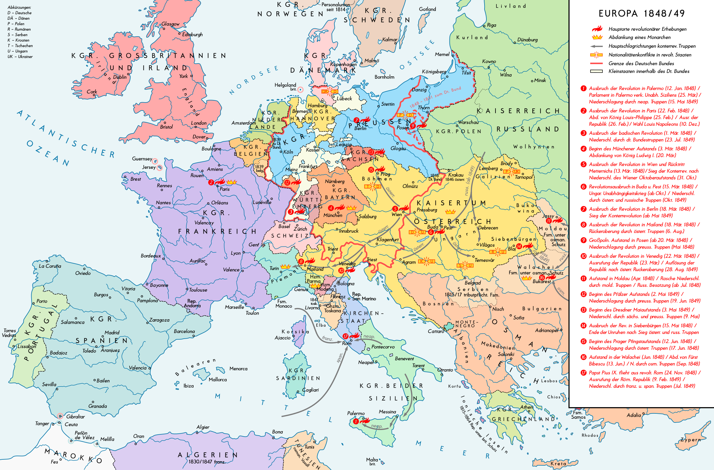 Europe 1848-49. Historical map with main revolutionary centres, important reactionary troop movements, states with abdications and national conflicts. Please don't alter the map, when you think there something not written or depicted correctly. Leave a message at the talk page of the file. After a verificiation and a possible discussion, i will upload a new map version with all new changes. This prevents an unnecessary waste of disc space and ensures a good result, aesthetically and contentwise. - The author.